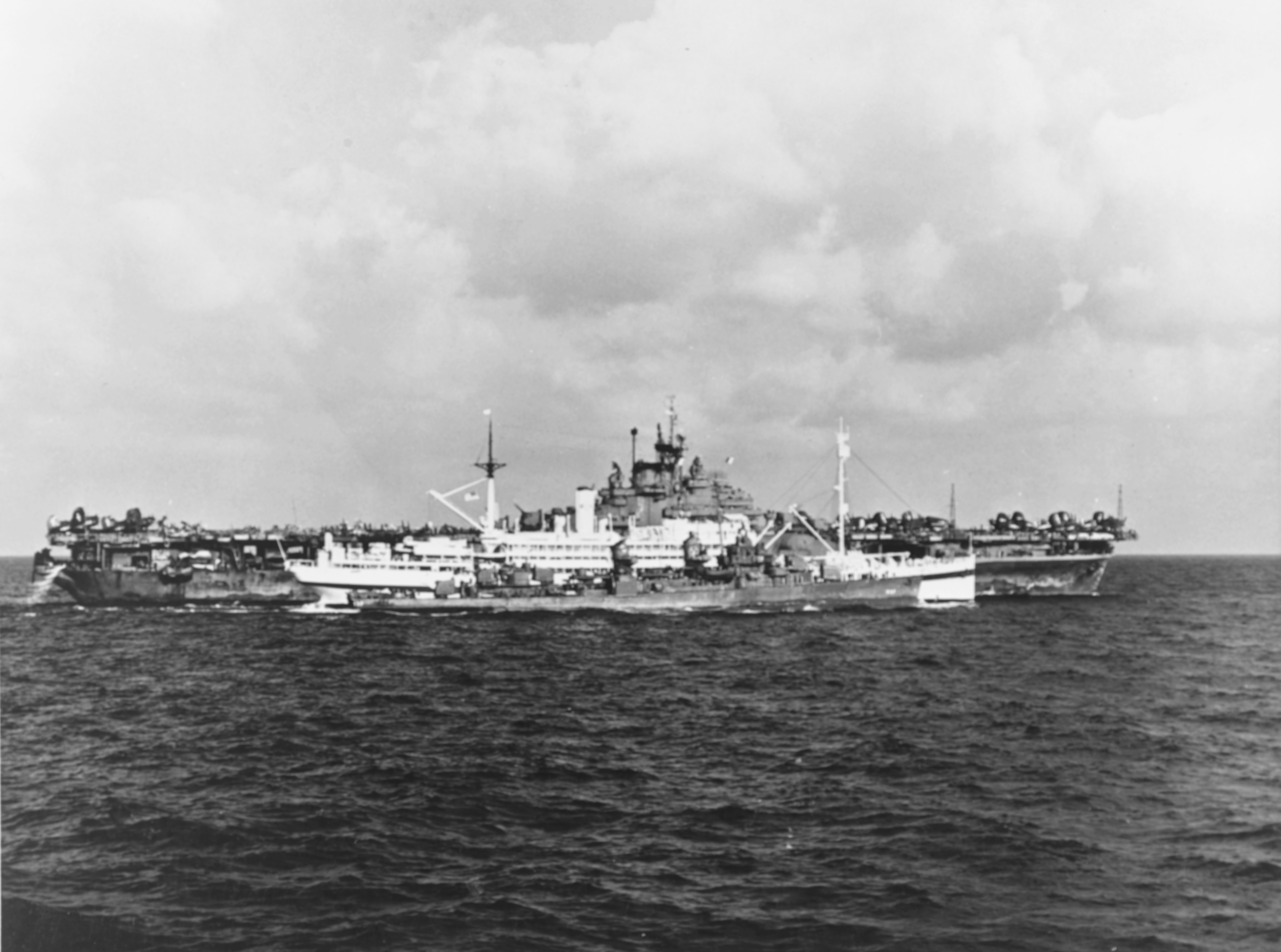 The U.S. Navy hospital ship USS Bountiful (AH-9) taking casualties on board from the aircraft carrier USS Bunker Hill (CV-17) on 12 May 1945, one day after the carrier was devastated by a kamikaze attack. The destroyer USS The Sullivans (DD-537) is in the foreground.